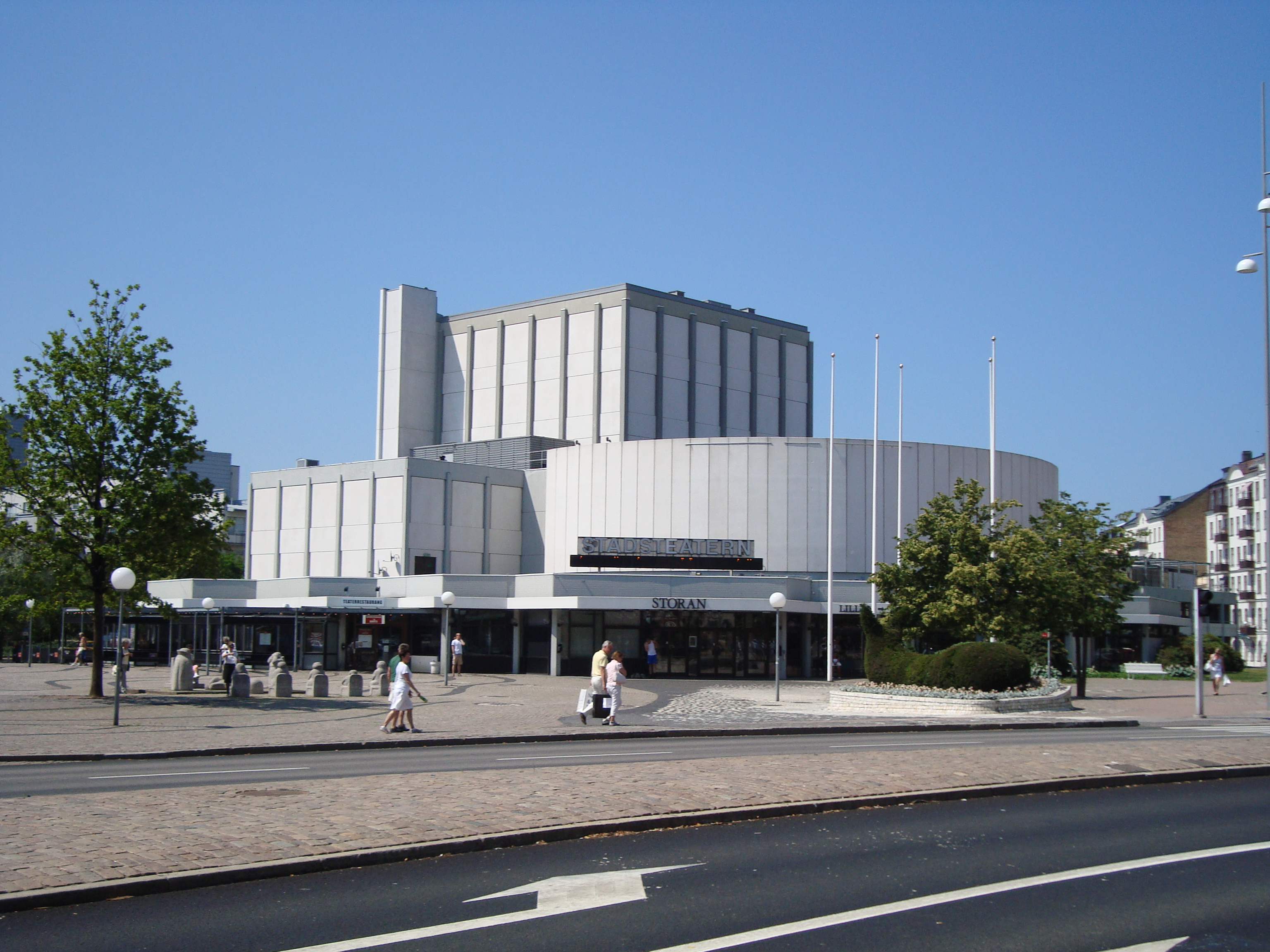 Helsingborg city theatre